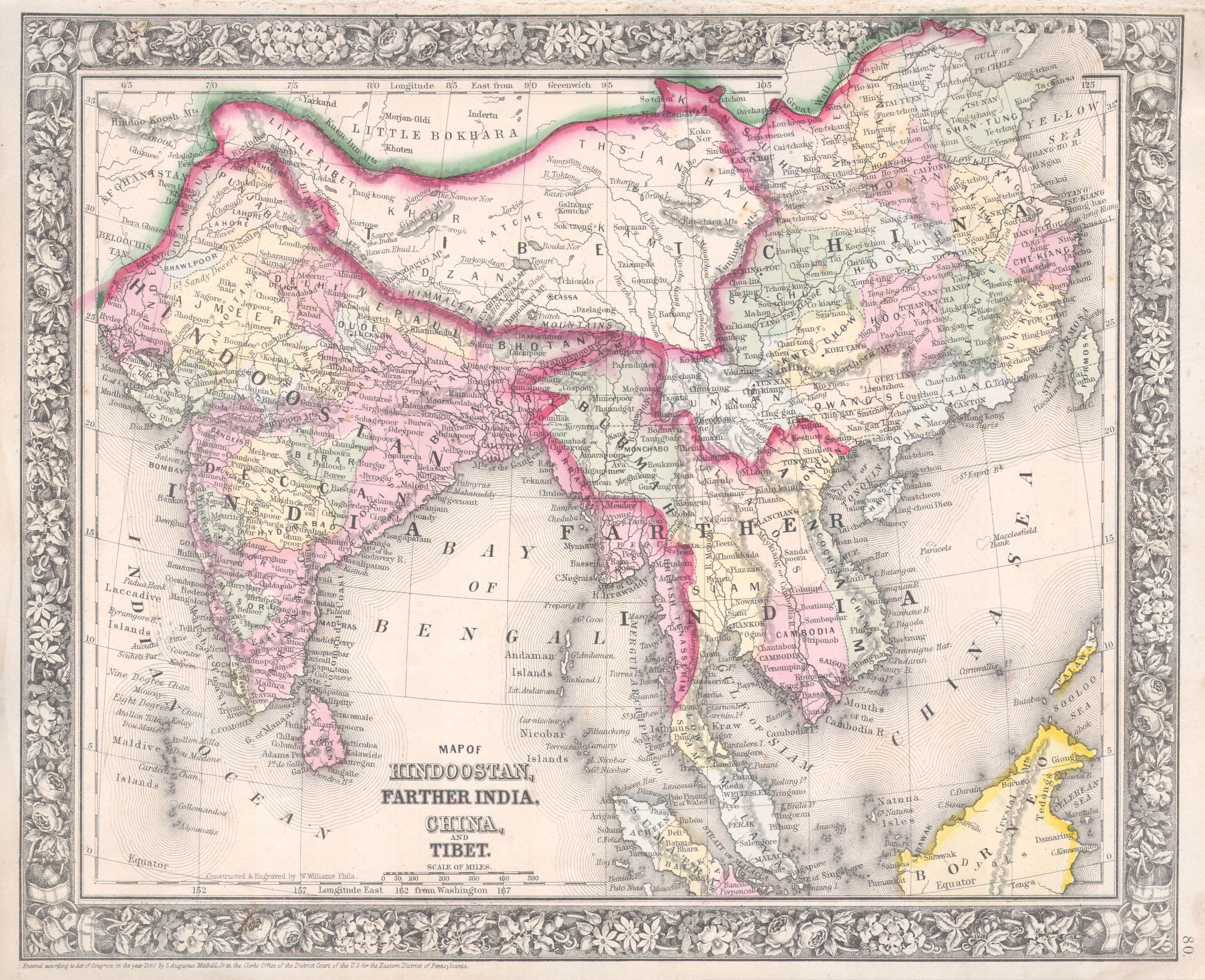 A beautiful example of S. A. Mitchell Jr.’s 1864 map of the India, Tibet, China and Southeast Asia, including Burma, Thailand, Cambodia, and Vietnam. Covers the region in considerable detail with parts of Malaysia, Sumatra, and Borneo included. One of the most attractive American atlas maps of this region to appear in the mid 19th century. Features the floral border typical of Mitchell maps from the 1860-65 period. Prepared by W. Williams for inclusion as plate 80 in the 1864 issue of Mitchell’s New General Atlas . Dated and copyrighted, “Entered according to Act of Congress in the Year 1860 by S. Augustus Mitchell in the Clerk’s Office of the District Court of the U.S. for the Eastern District of Pennsylvania.